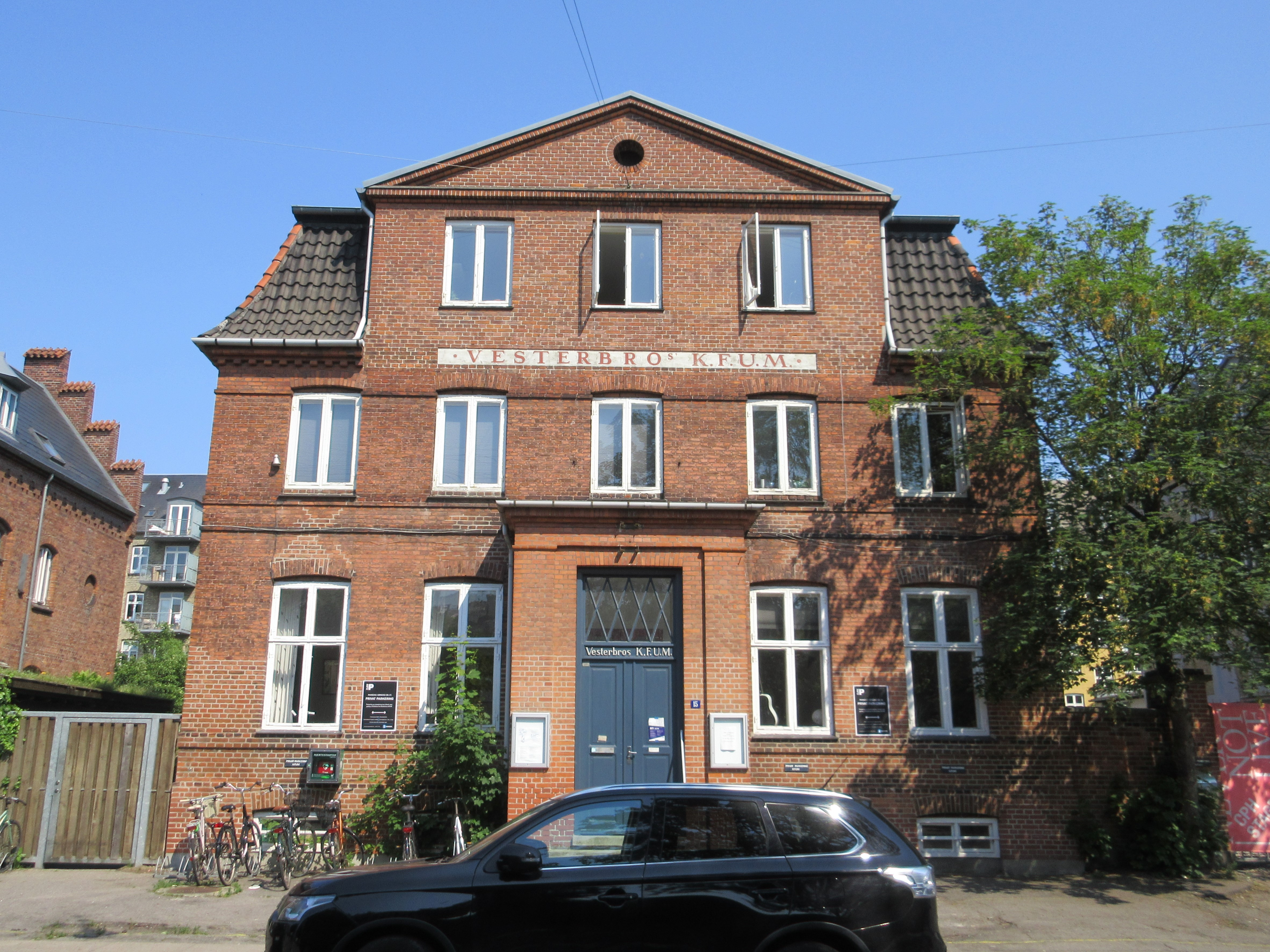 Valdemarsgade 15 in Copenhagen, Denmark